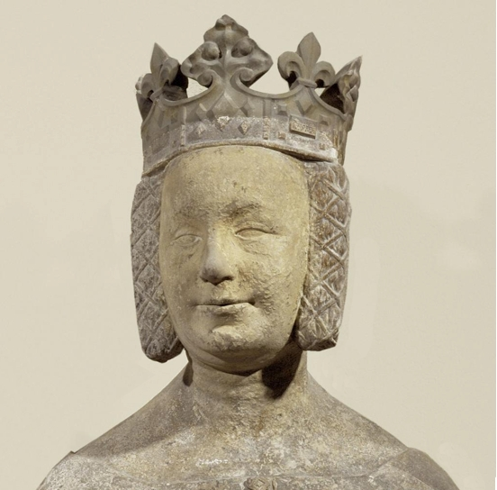 Statue of Jeanne of Bourbon, Queen consort of Charles V of France.